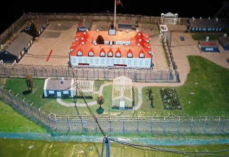 Model of Falstad fangeleir / Falstad concentration camp in Levanger, Norway during WW2, at exposition in the camp museum